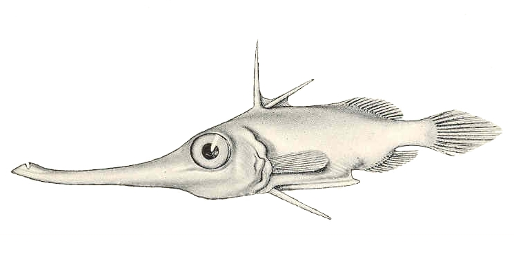 Deep-sea Snipe-fish, Halimochirugus centriscoides, from off Cape Comorin, 143 fathoms Subject: Halimochirurgus, Triacanthidae Tag: Fish